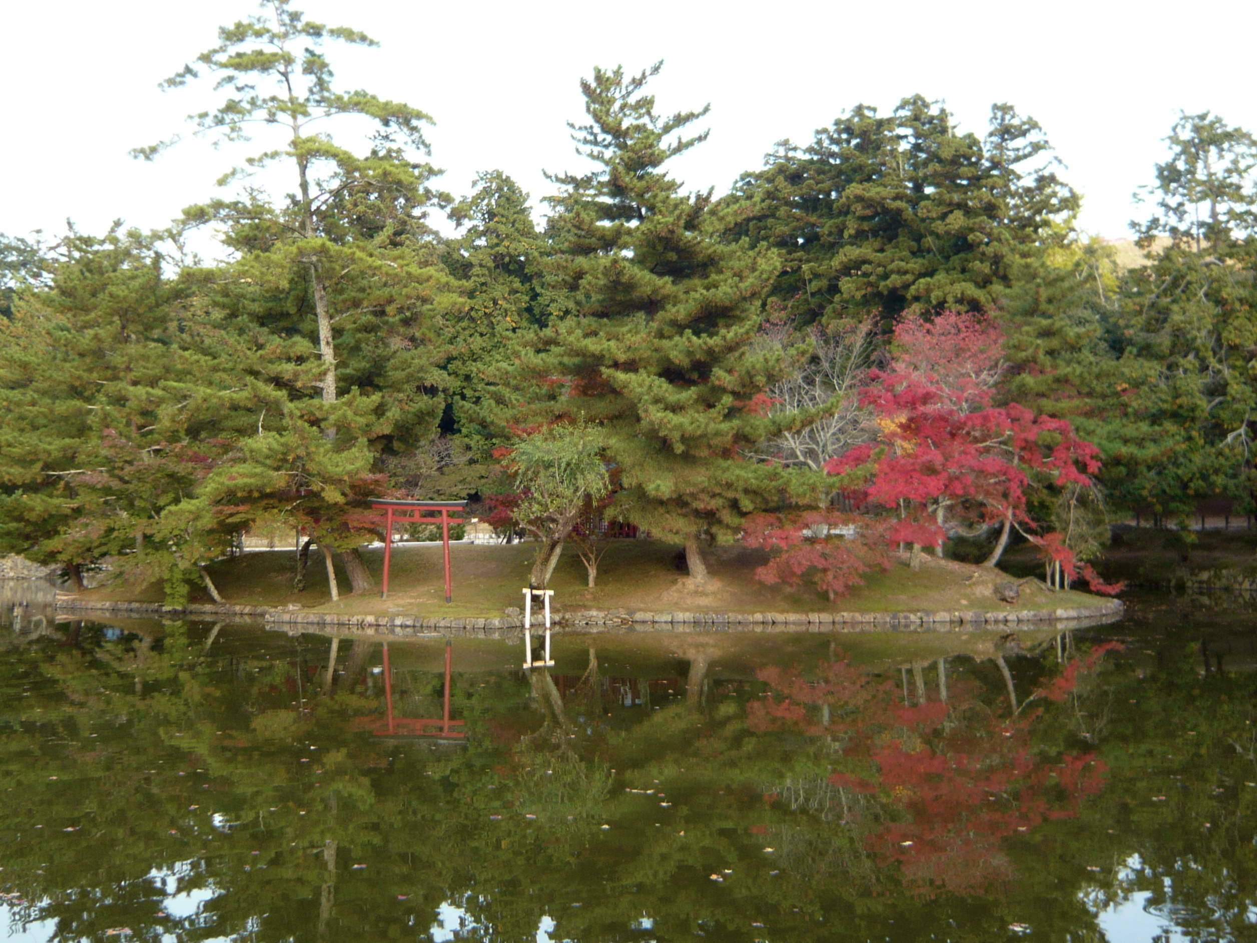 Island and torii in the Mirror lake. Todaiji, Nara.